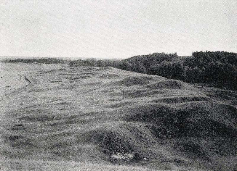 Newer and smaller royal tumuli thought to be the resting place of King Eric the Victorious of Sweden (died about 995) Place: Old Upsala, Sweden